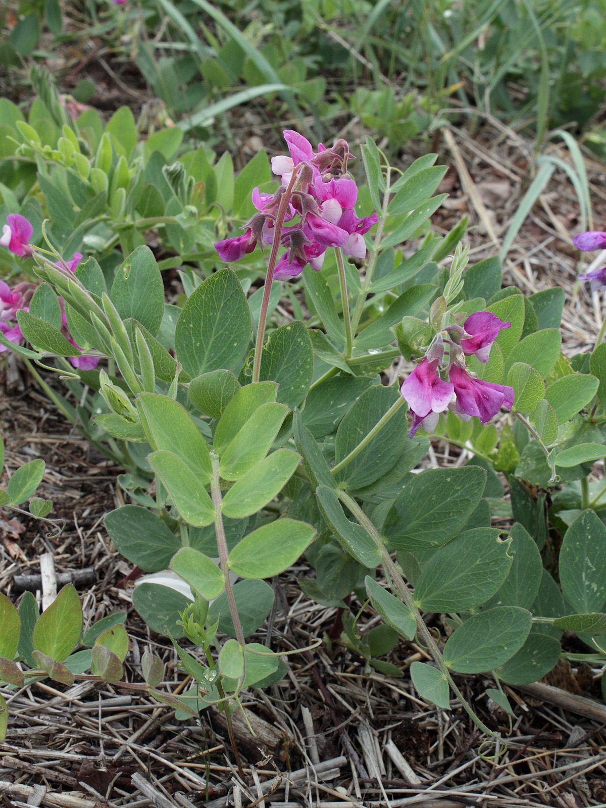 Fabaceae, Lathyrus japonicus